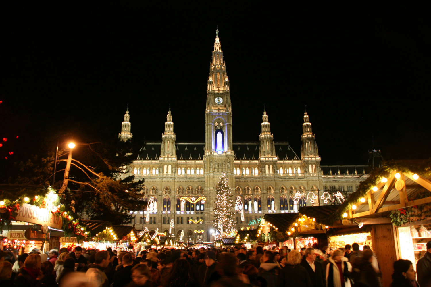 Town Hall in Vienna, Austria. Christmas market.